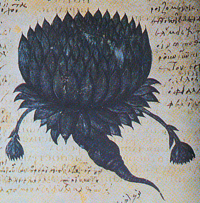 Aeizon to Mikron (Sempervivum tectorum) in Codex Vindobonensis